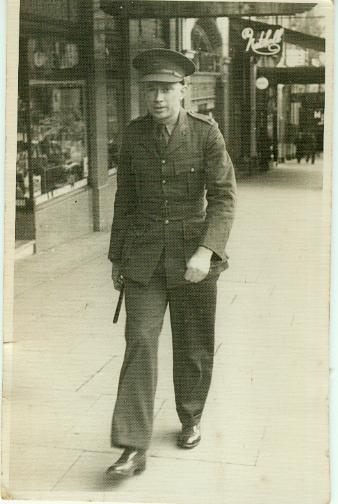 in Collins Street Melbourne in 1942